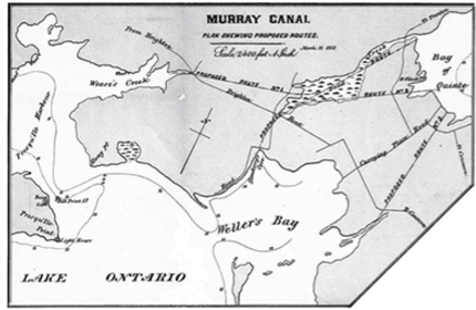 Three proposed routes for a short canal connecting the Bay of Quinte with Lake Ontario